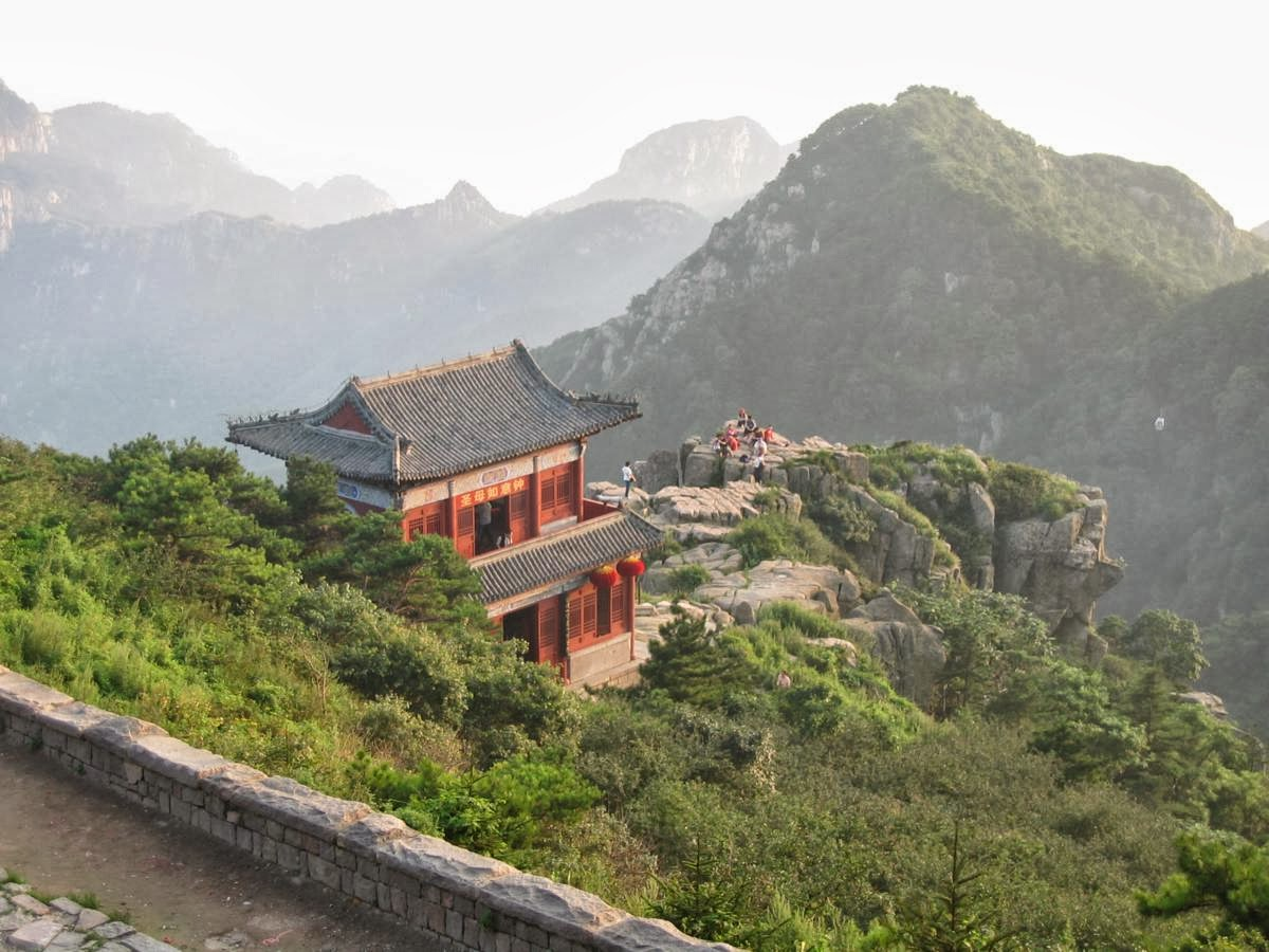 Mount Tai 2